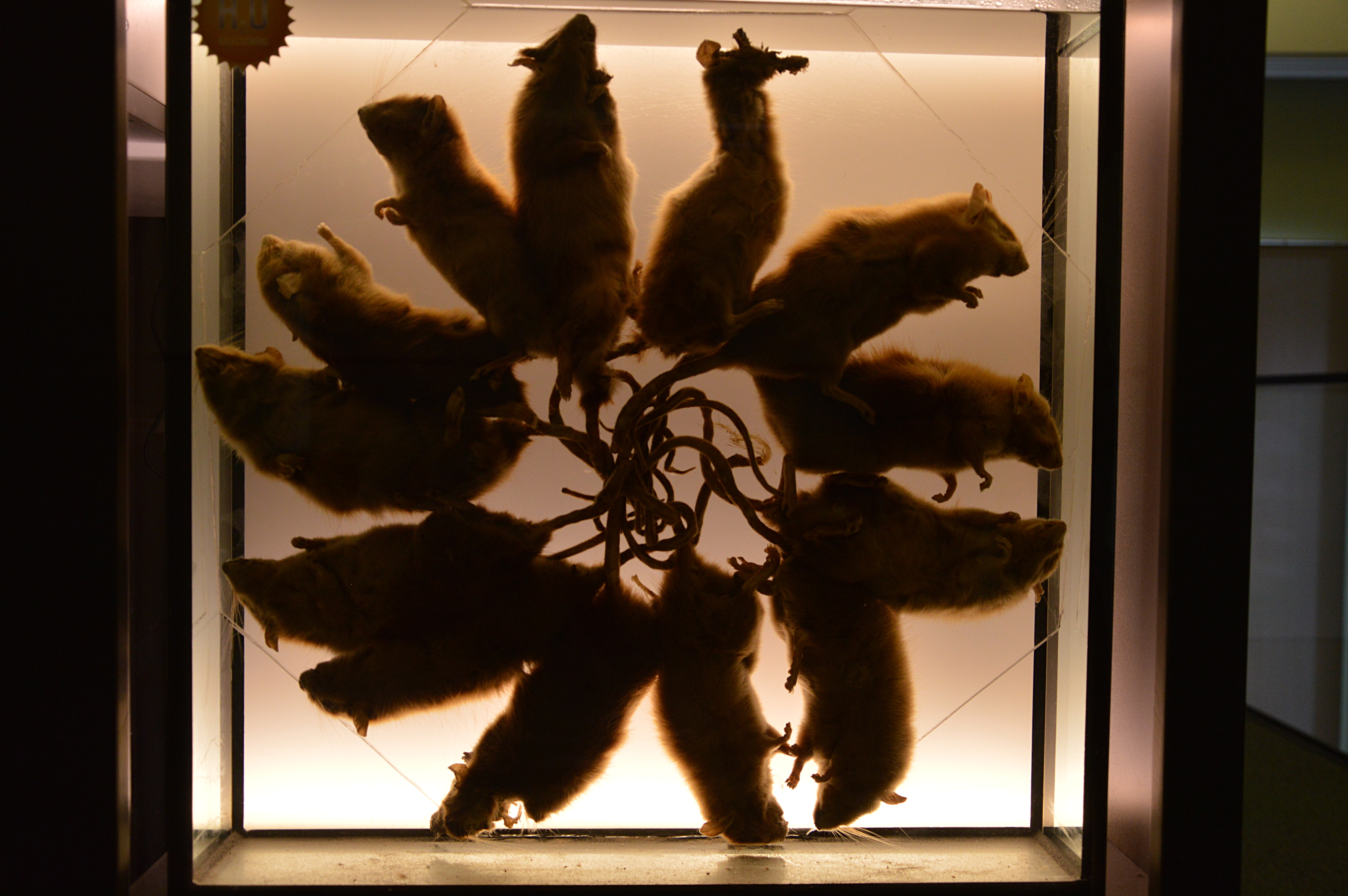 The rat king. Found in 2005 from Mõniste Parish, South Estonia. Initially, there had been 16, but by the time of finding, there were 13 (some small predator had likely eaten three of them). University of Tartu Natural History Museum.